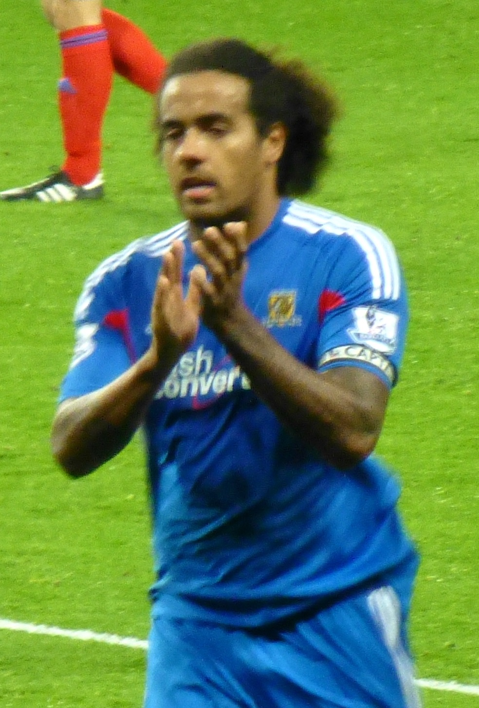 Tom Huddlestone. Image cropped from original at flickr.